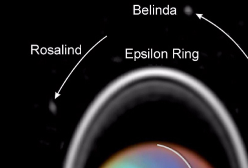 The Hubble Space Telescope captured tiny Rosalind orbiting Uranus in 1997.